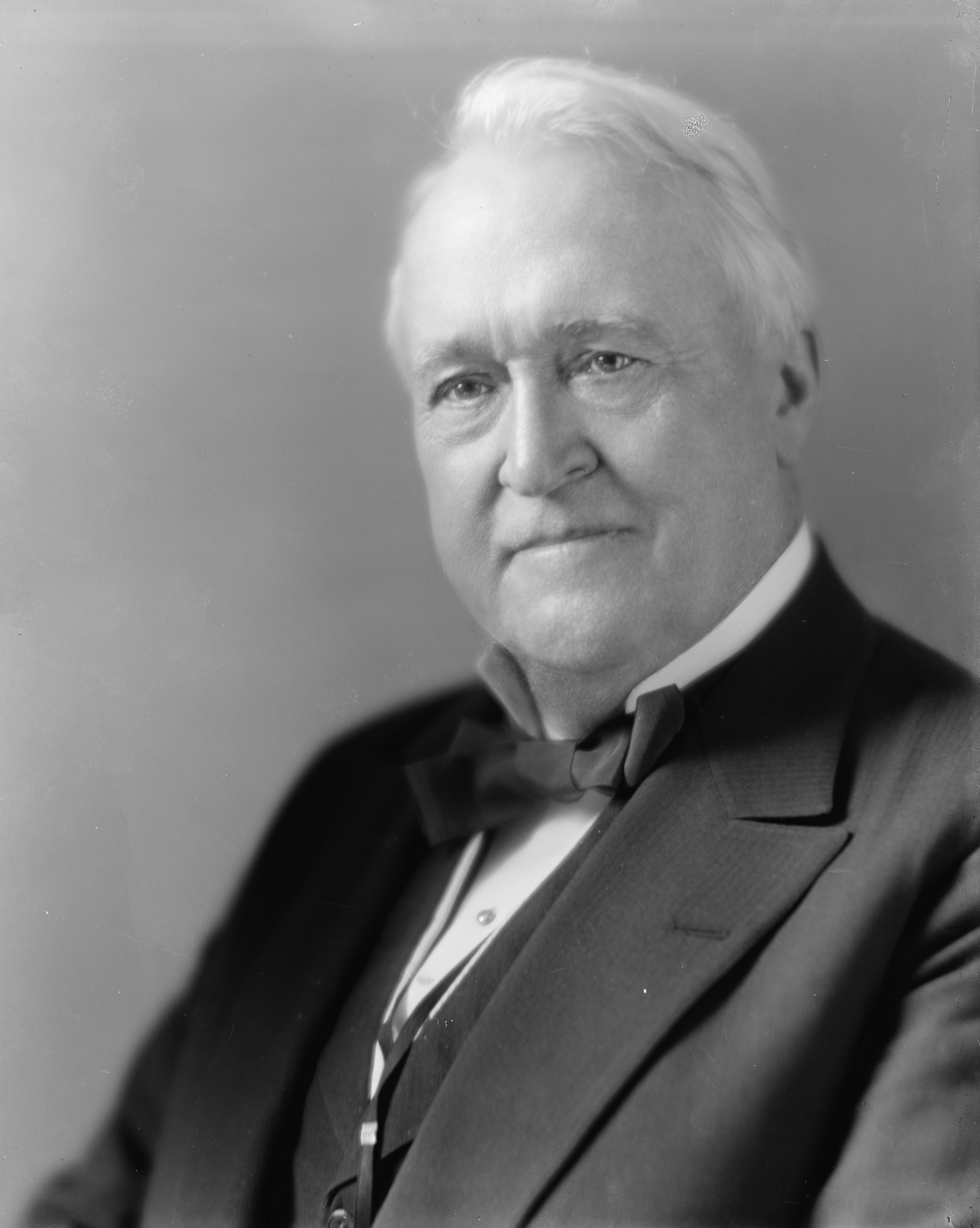 Title: OVERMAN, LEE S. SENATOR Abstract/medium: 1 negative : glass ; 8 x 10 in. or smaller